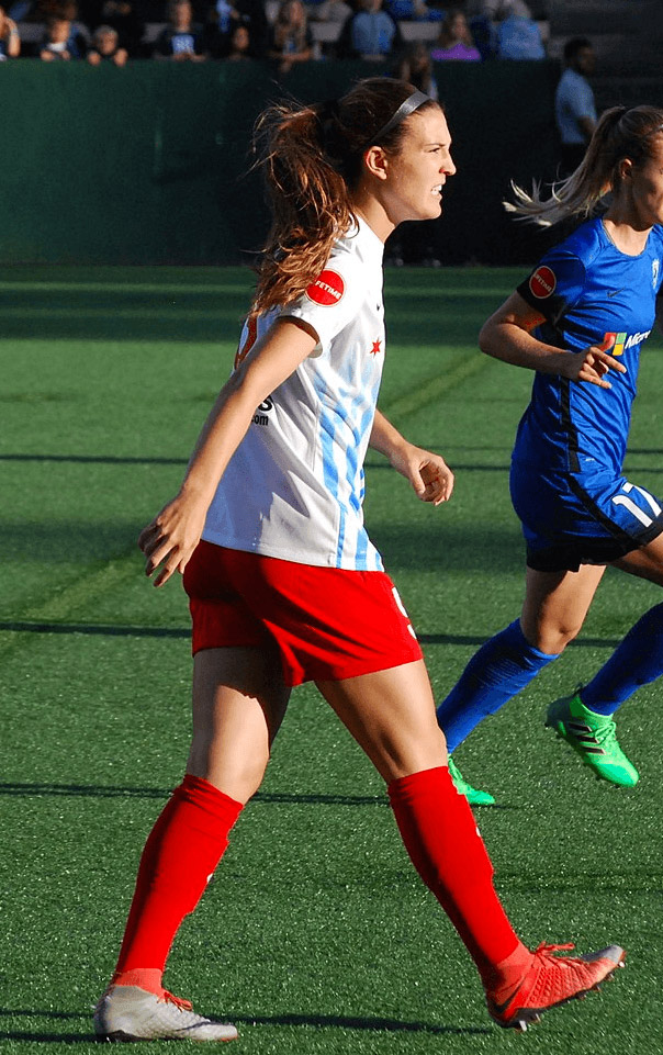 Katie Naughton during a match between Chicago Red Stars and Seattle Reign, June 28, 2017